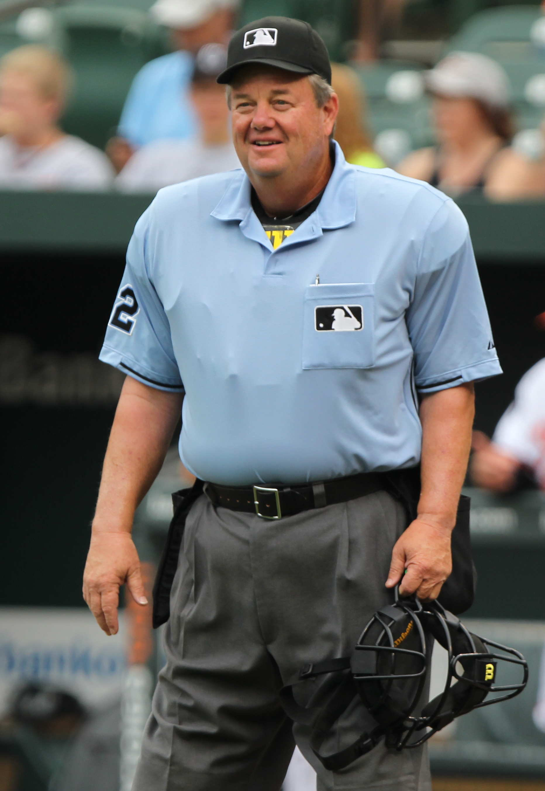 Blue Jays at Orioles September 1, 2011